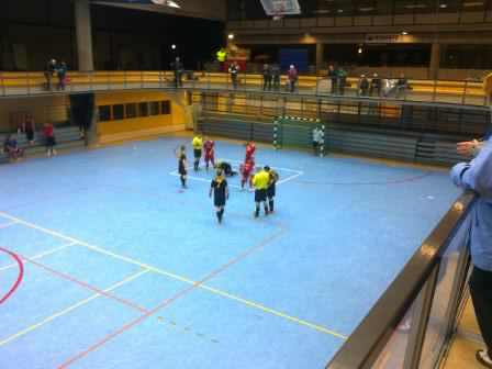 FC Jazz vs. GFT, Finnish Futsal League 2012/2013 in Pori, Finland.